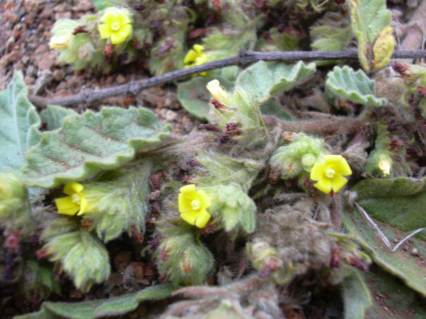 Waltheria indica (flowers). Location: Kahoolawe, Summit